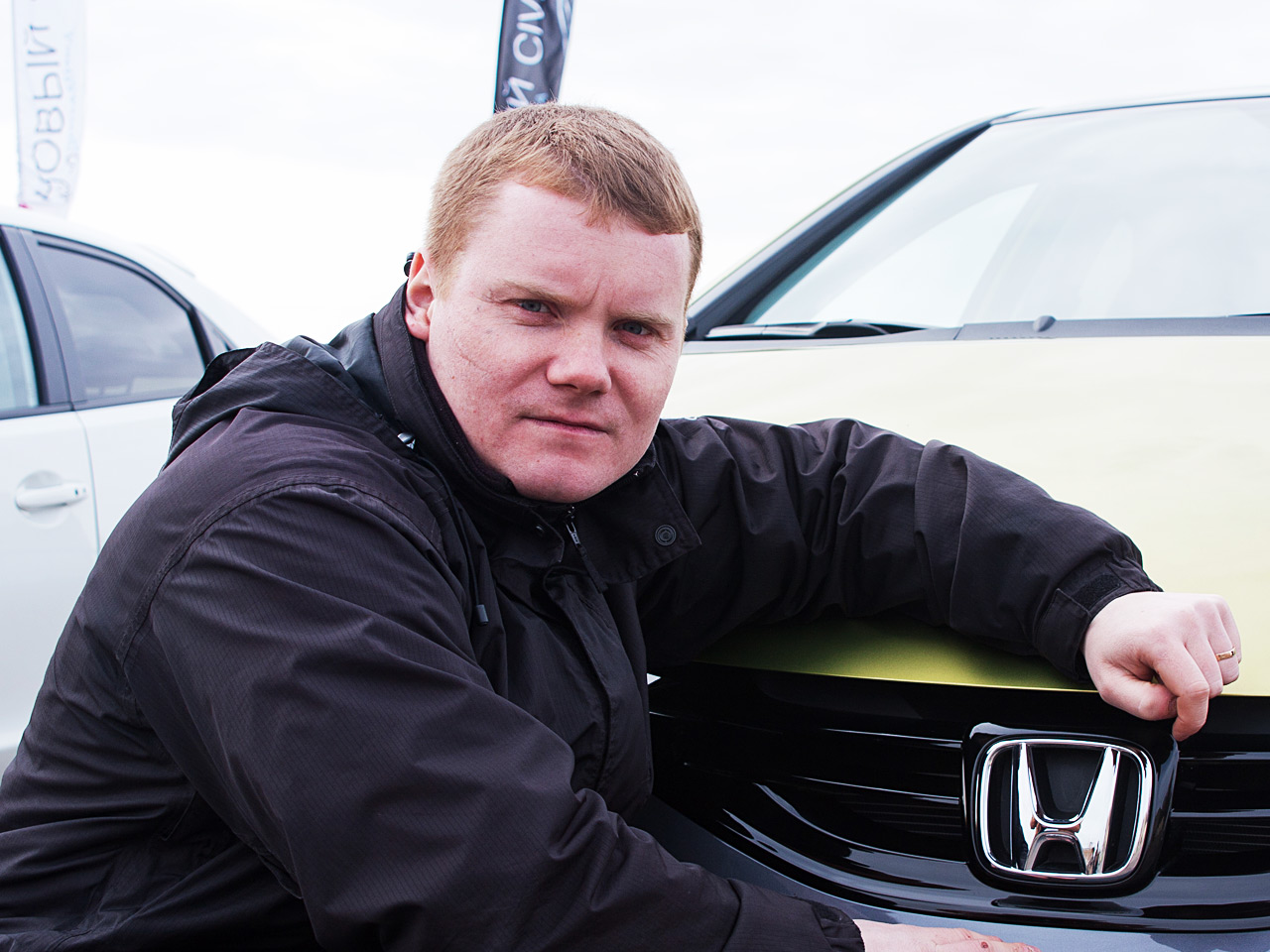 Russian racing driver Victor Shaitar